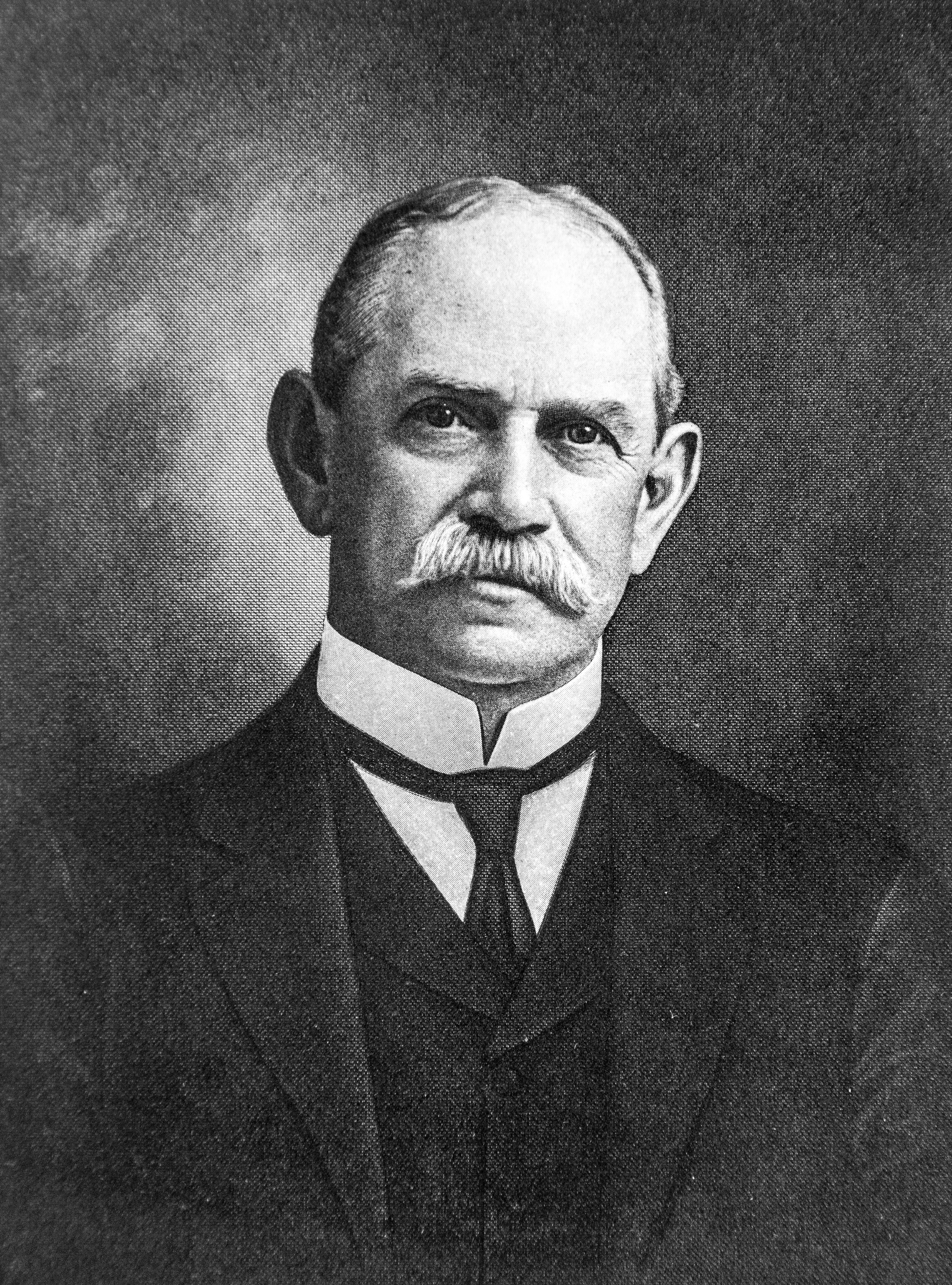 Joseph Davol (1837-1909) Rhode Island rubber manufacturer and industrialist. Engraving from Memorial Encyclopedia of the State of Rhode Island, 1916.